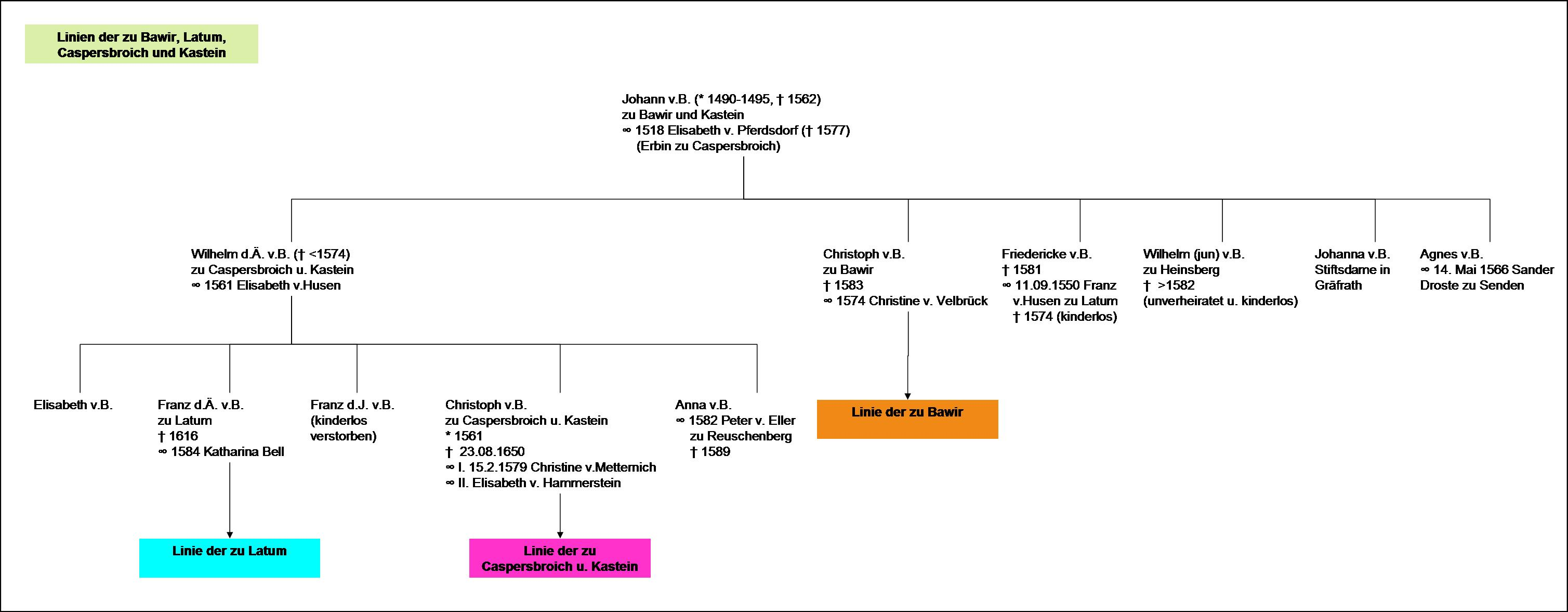 Pedigree of noble Bawir family (lineage Bawir-Caspersbroich-Kastein-Latum)